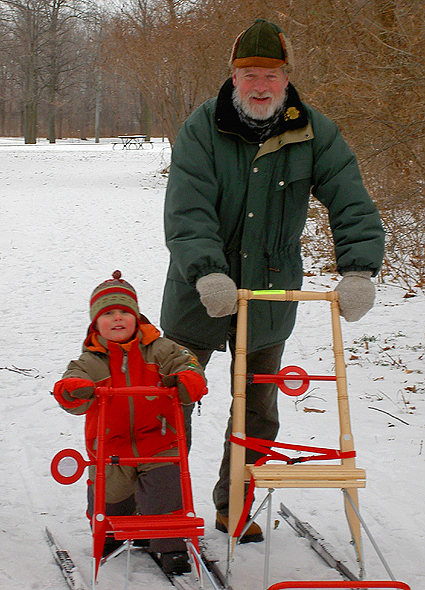 kicksled